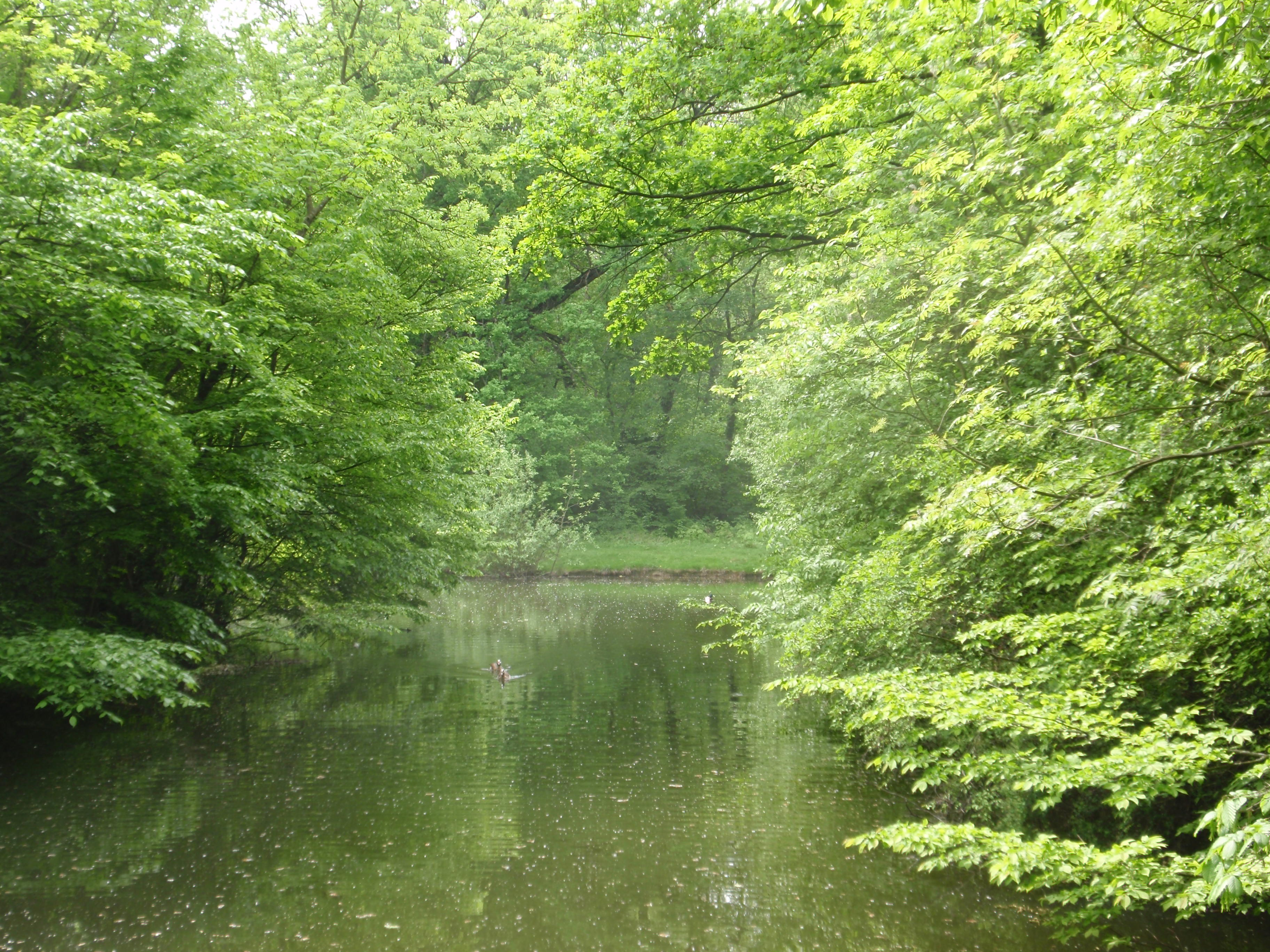 View of the Fasanerie ("pheasant park"), a landscape garden in Groß-Gerau, Hesse, Germany.